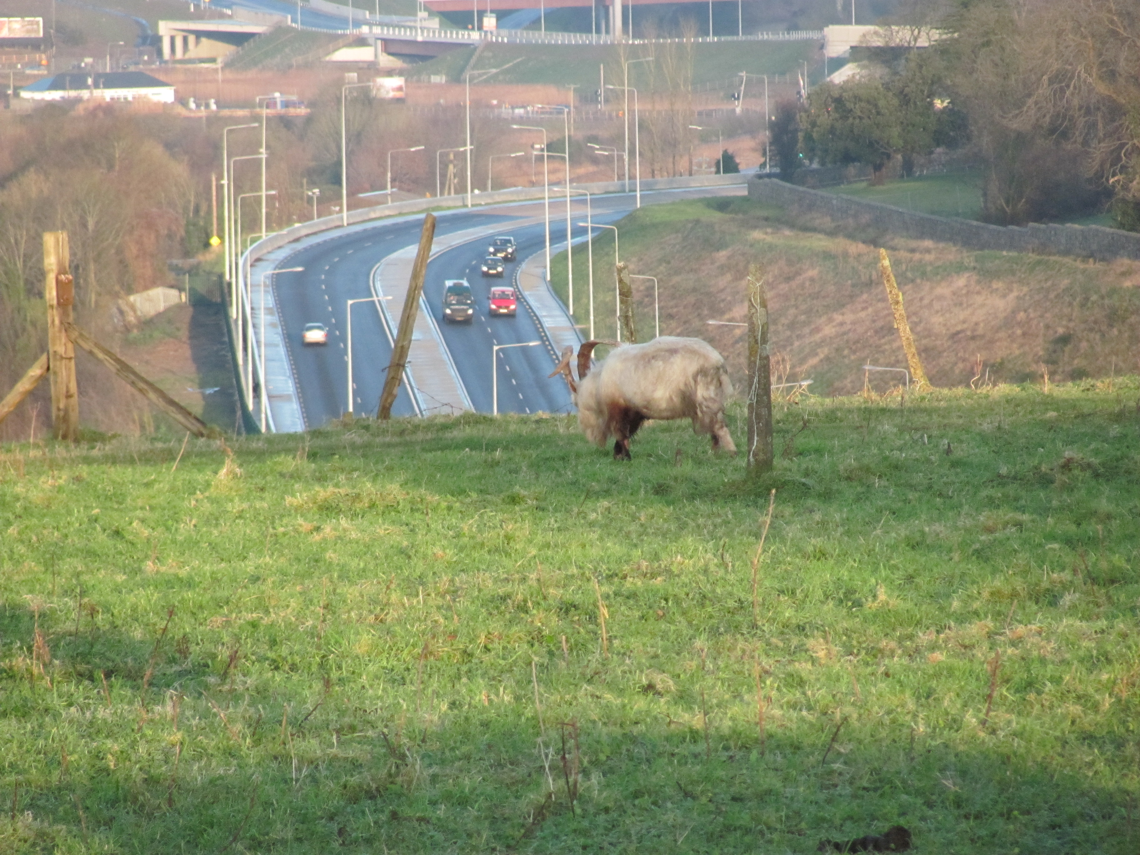 Back end of Bilberry Goat, Waterford, [1]